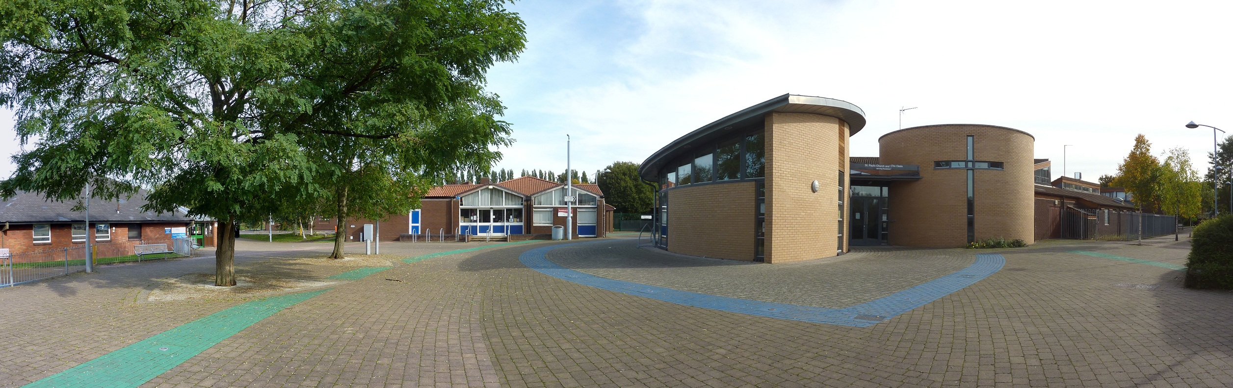 A panorama of Pendeford Square, showing the Health Centre, Library, St Paul's CofE School, and Pendeford Church. Taken on 7th October 2012.